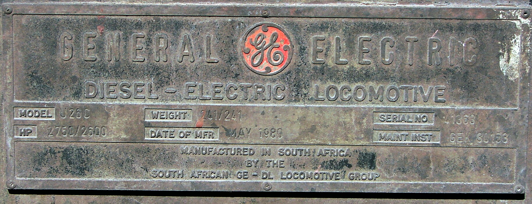 South African Class 34-900 34-914 builder's plate Builder's Number: GE-DL 41363 Type: GE U26C Location: Bellville, Cape Town, Western Cape